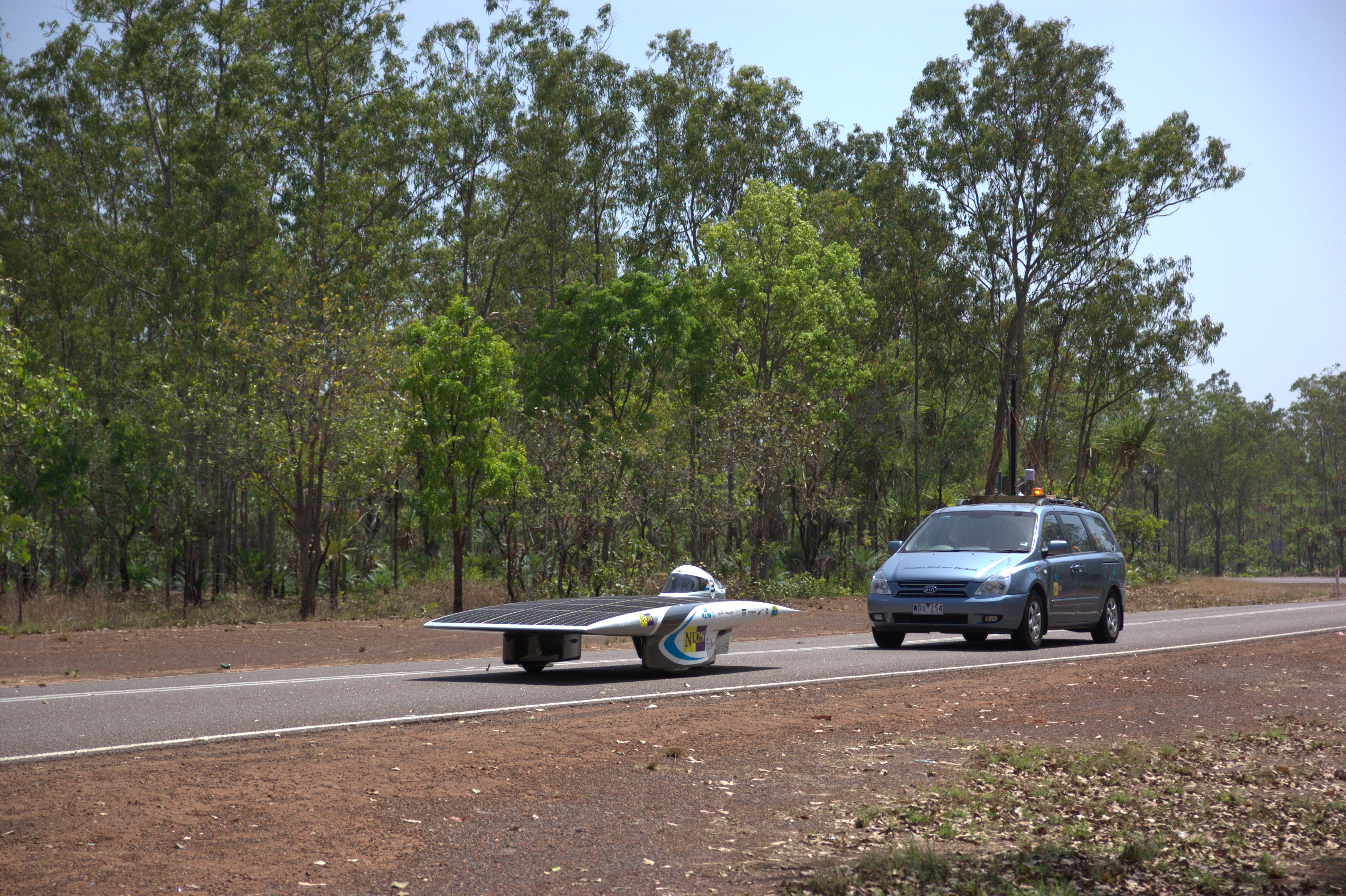 Nuna5 in the tropics near Darwin